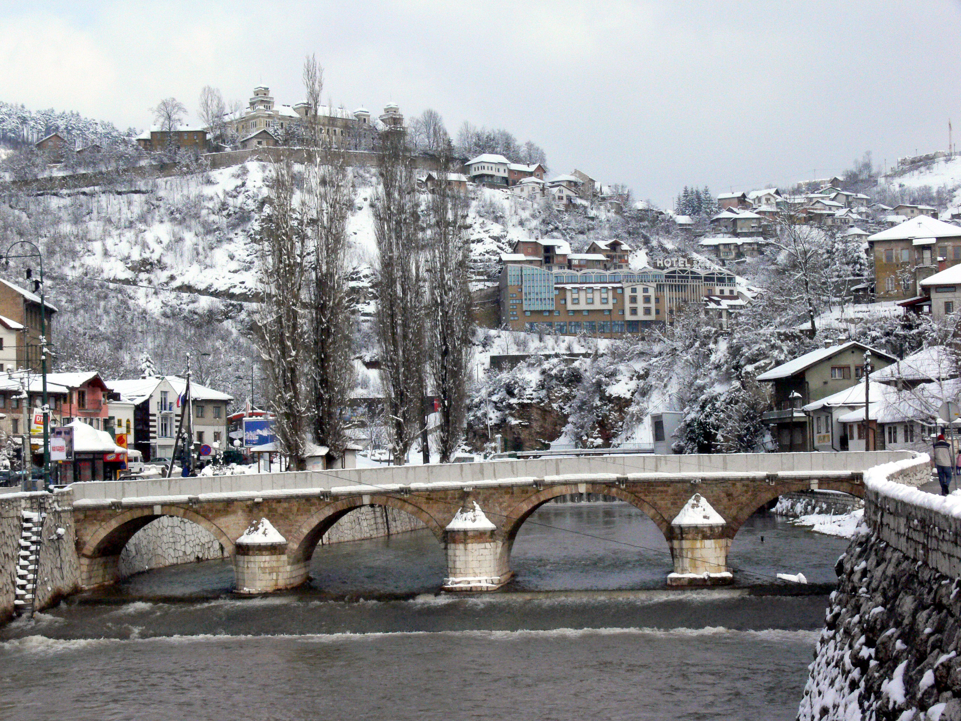 The bridge "Seher Čehajin most" in Sarajevo.